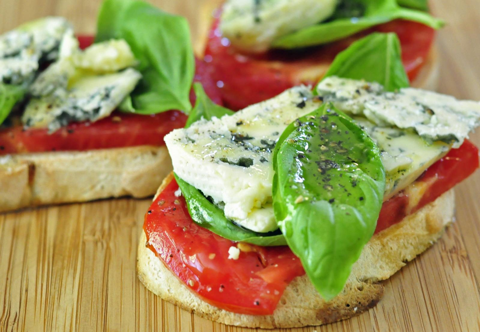 Blue cheese and tomato sandwiches